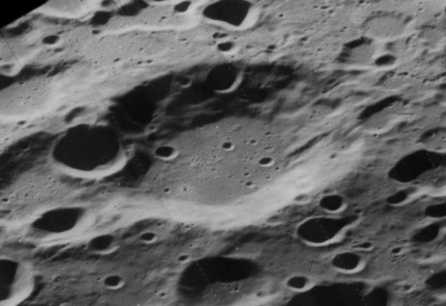 Oblique view of Leucippus, on the far side of the moon, facing west.